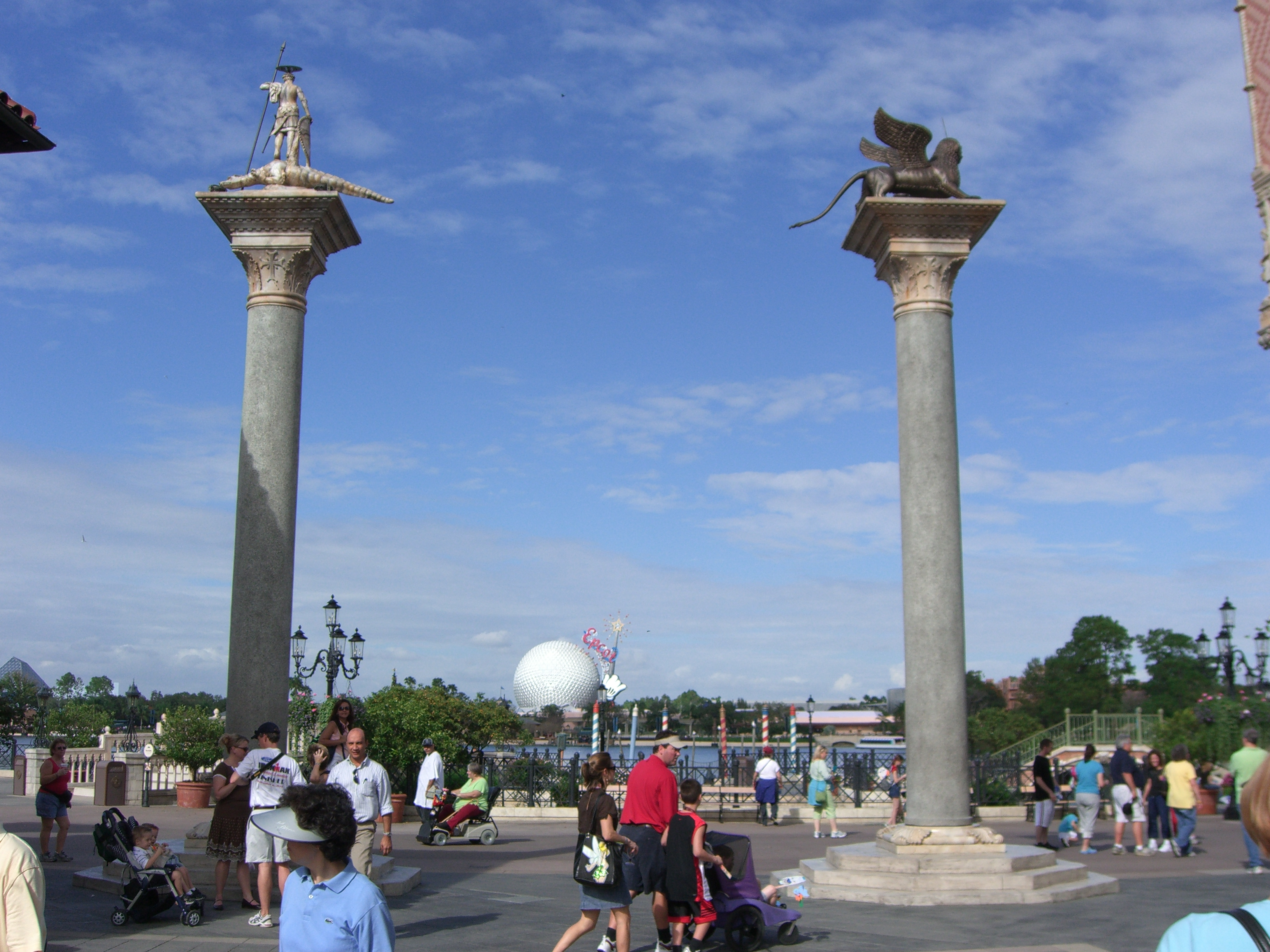 Entrance to the Italy pavillion at Epcot with towers and Spaceship Earth behind them